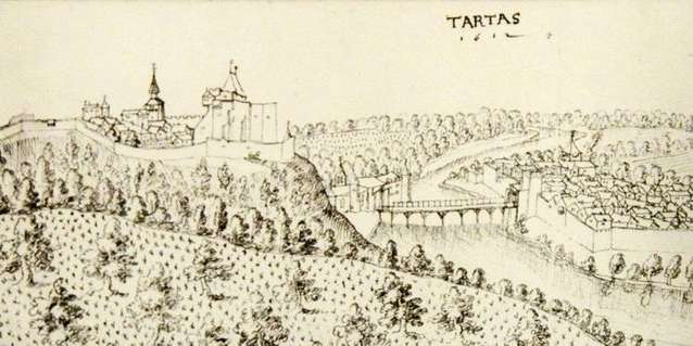 Sketch of the Gascon town of Tartas by artist Duviert dated 1612.